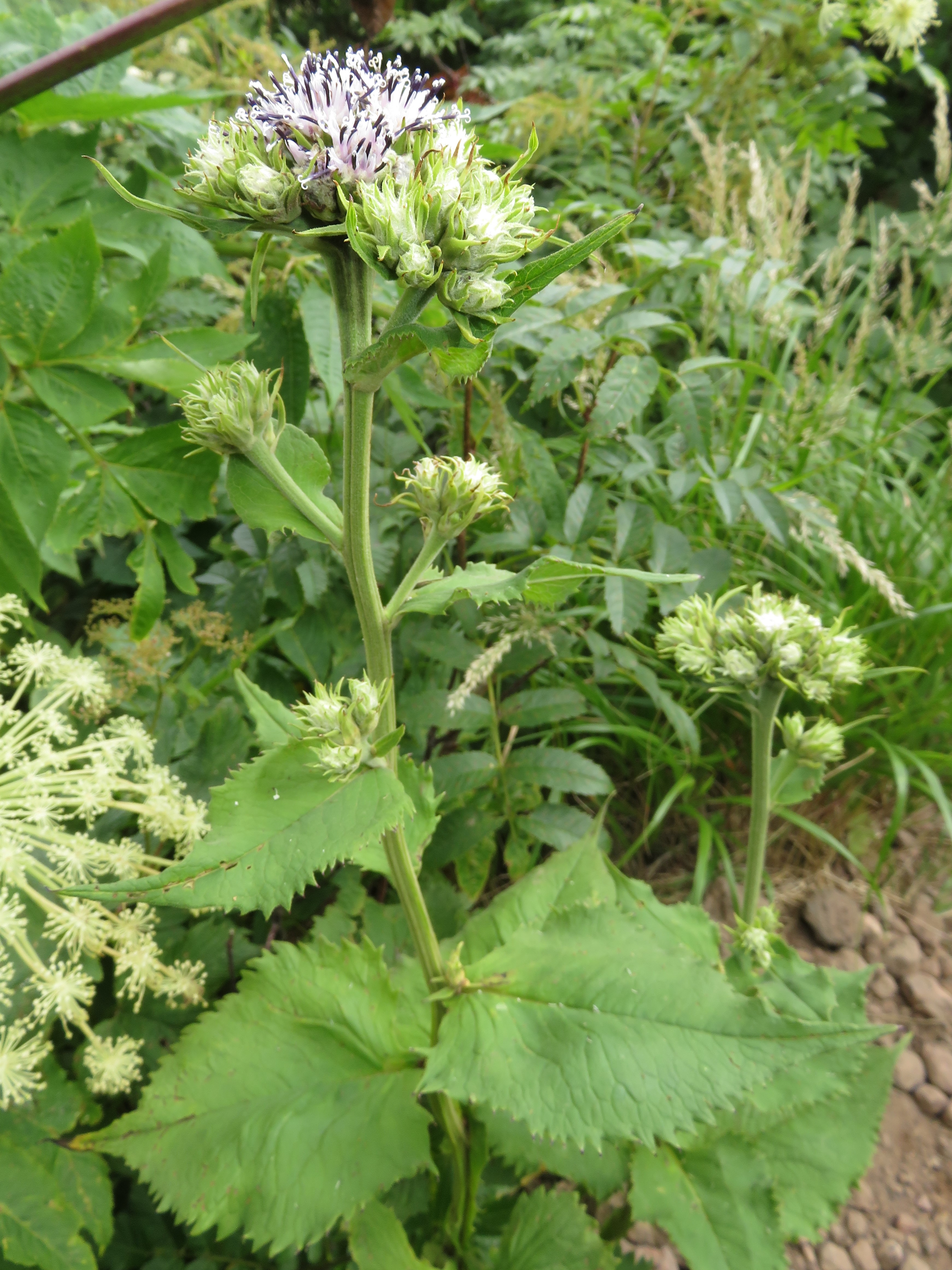 Saussurea ugoensis, Mount Akita-koma, Akita pref., Japan